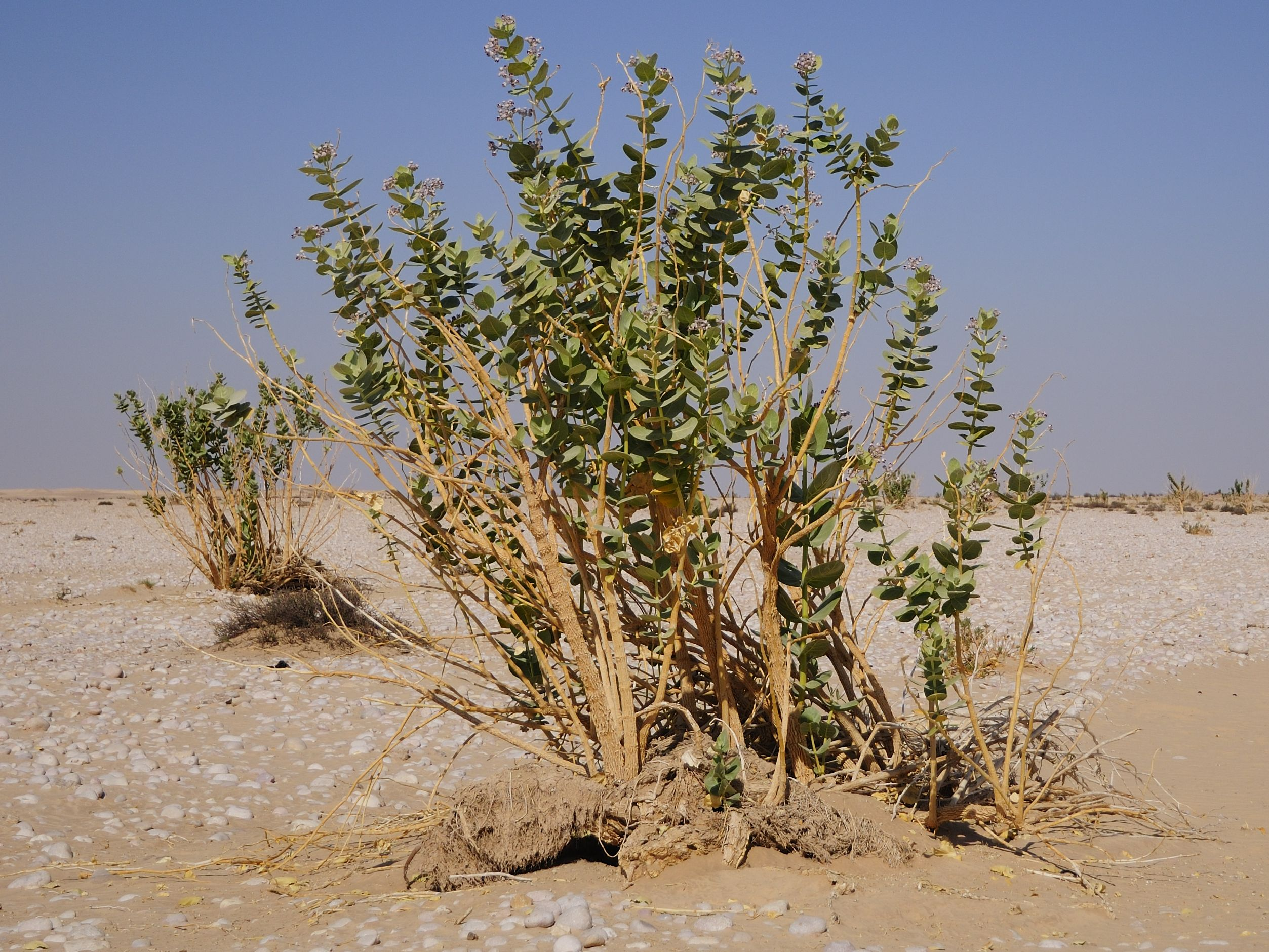 Location: Rub al-Khali (Oman) (see geotag) '